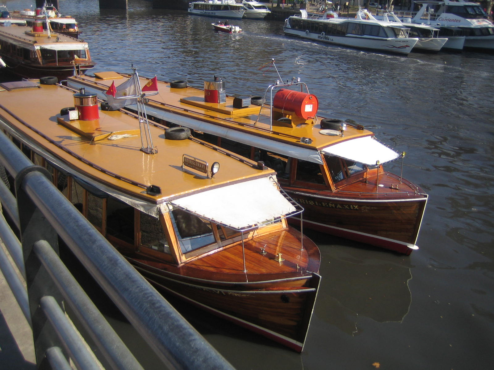 Commuter boats - Buenos Aires - Argentina